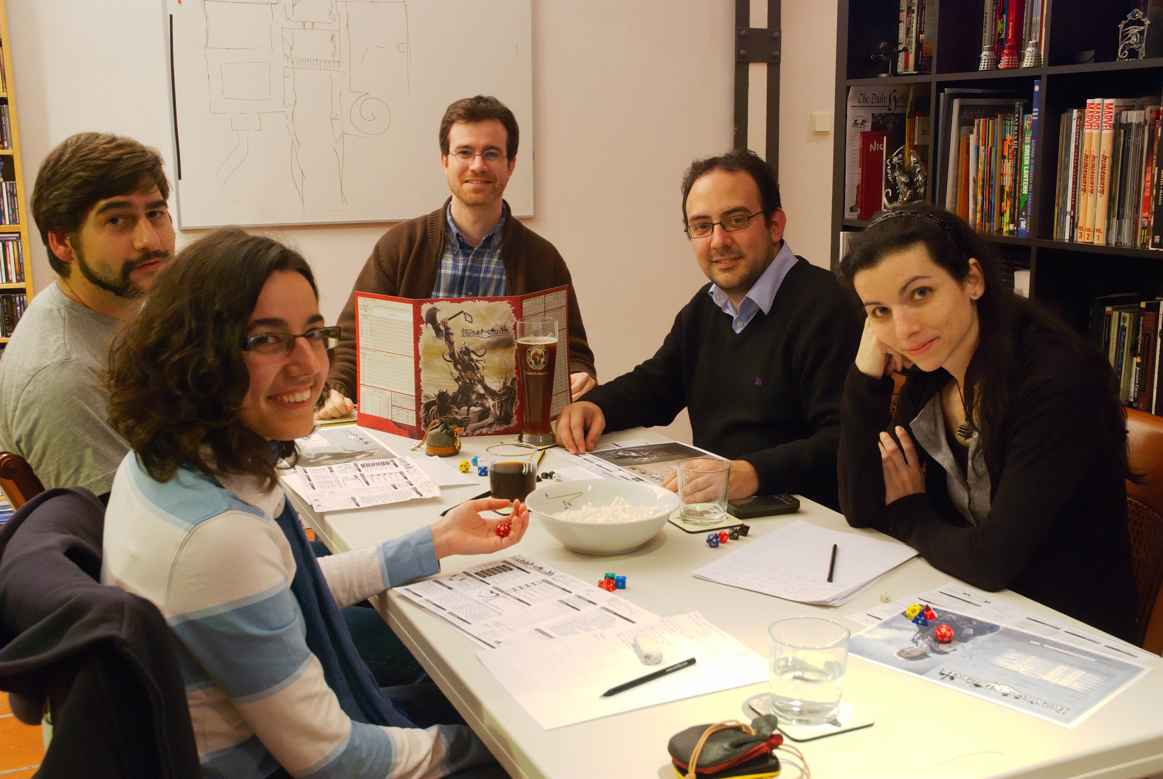 A group of role playing gamers, enjoying a night session. Dice, snacks, beverages, character sheets and a private house combined to offer a traditional pen & paper RPG experience. [This photo was taken and published with the consent of all five identifiable subjects]